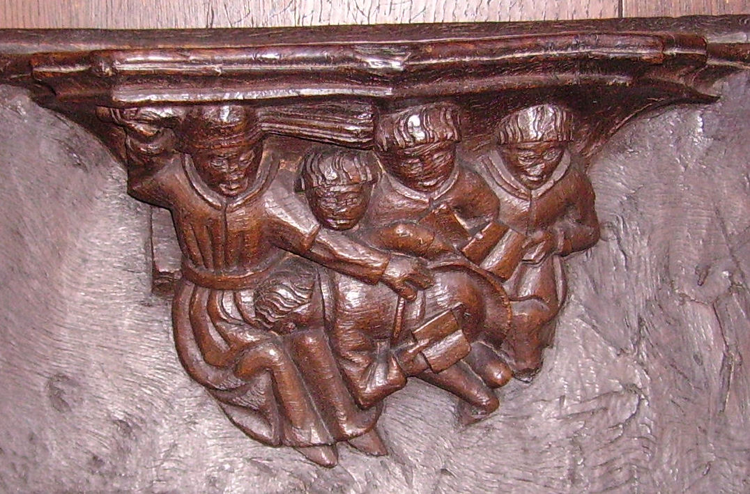 From the inside of Boston Stump, a church in Lincolnshire, United Kingdom.